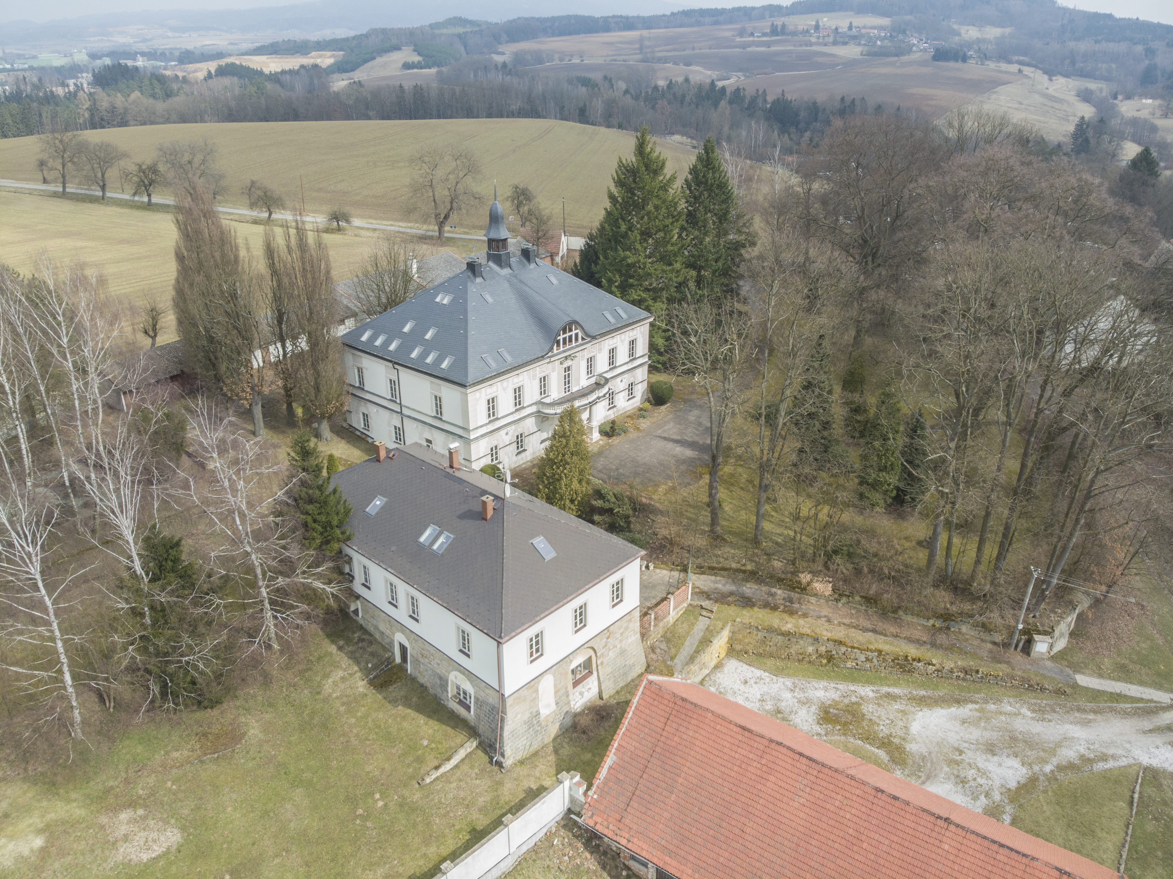 Chateau Mladějov, Czech Republic (Jičín District)